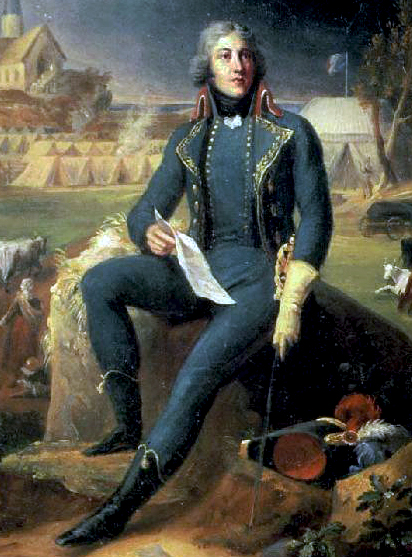 General Lazare Hoche the 28-year-old, portrait of French General Louis Lazare Hoche